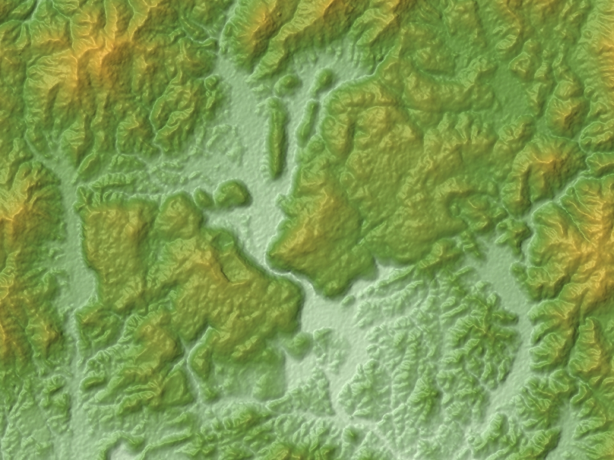 Akiyoshidai in Yamaguchi Prefecture, Chūbu region, Honshu, Japan.